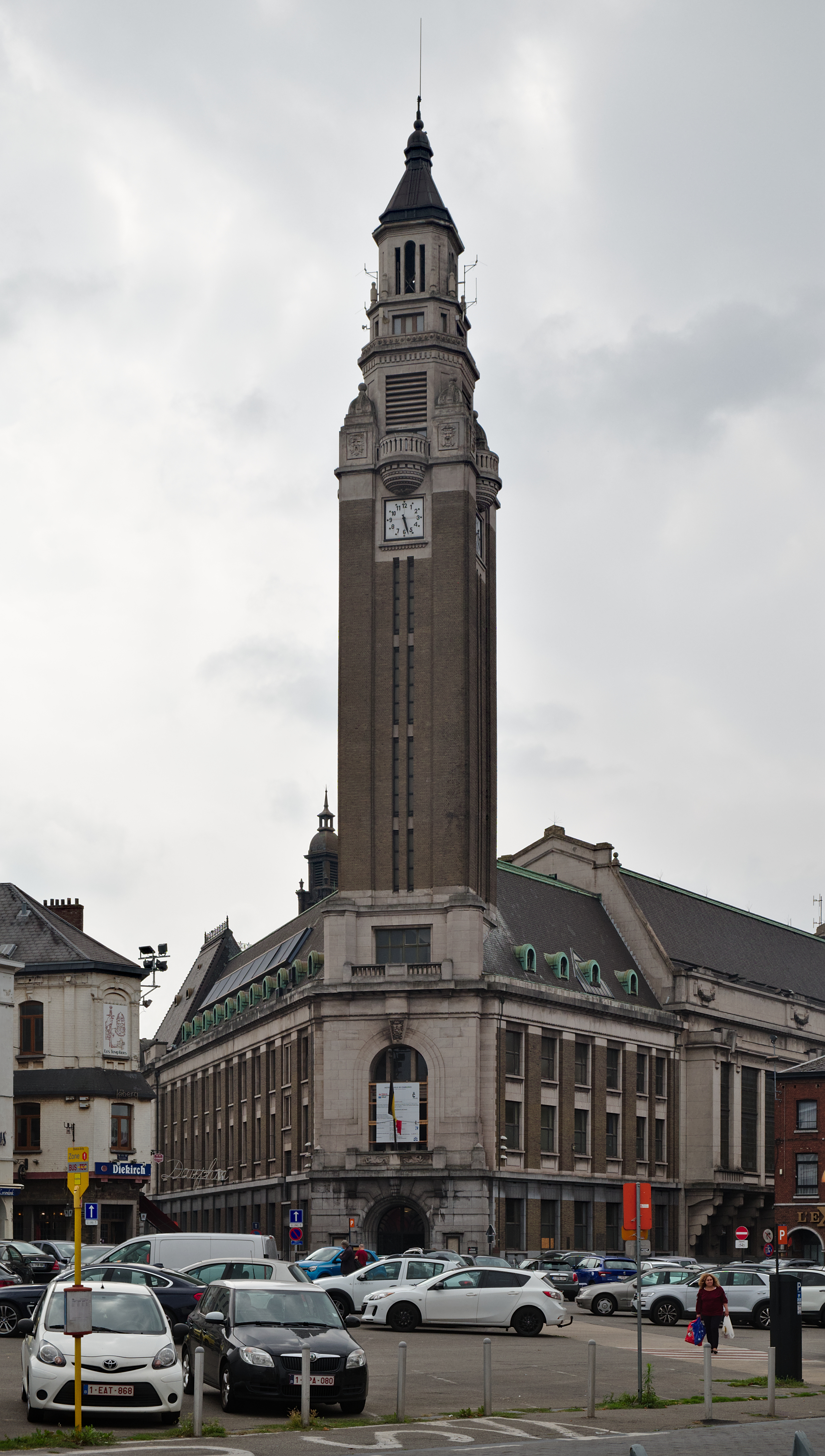 Belfry of Charleroi